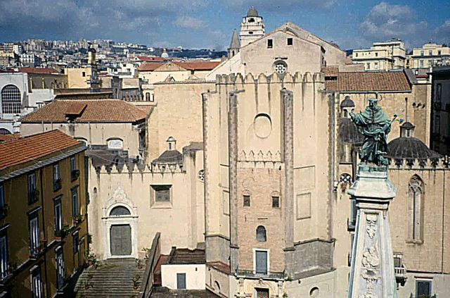 Private photo taken and uploaded by user Jeffmatt 19:09, 15 September 2006 (UTC) No rights claimed.